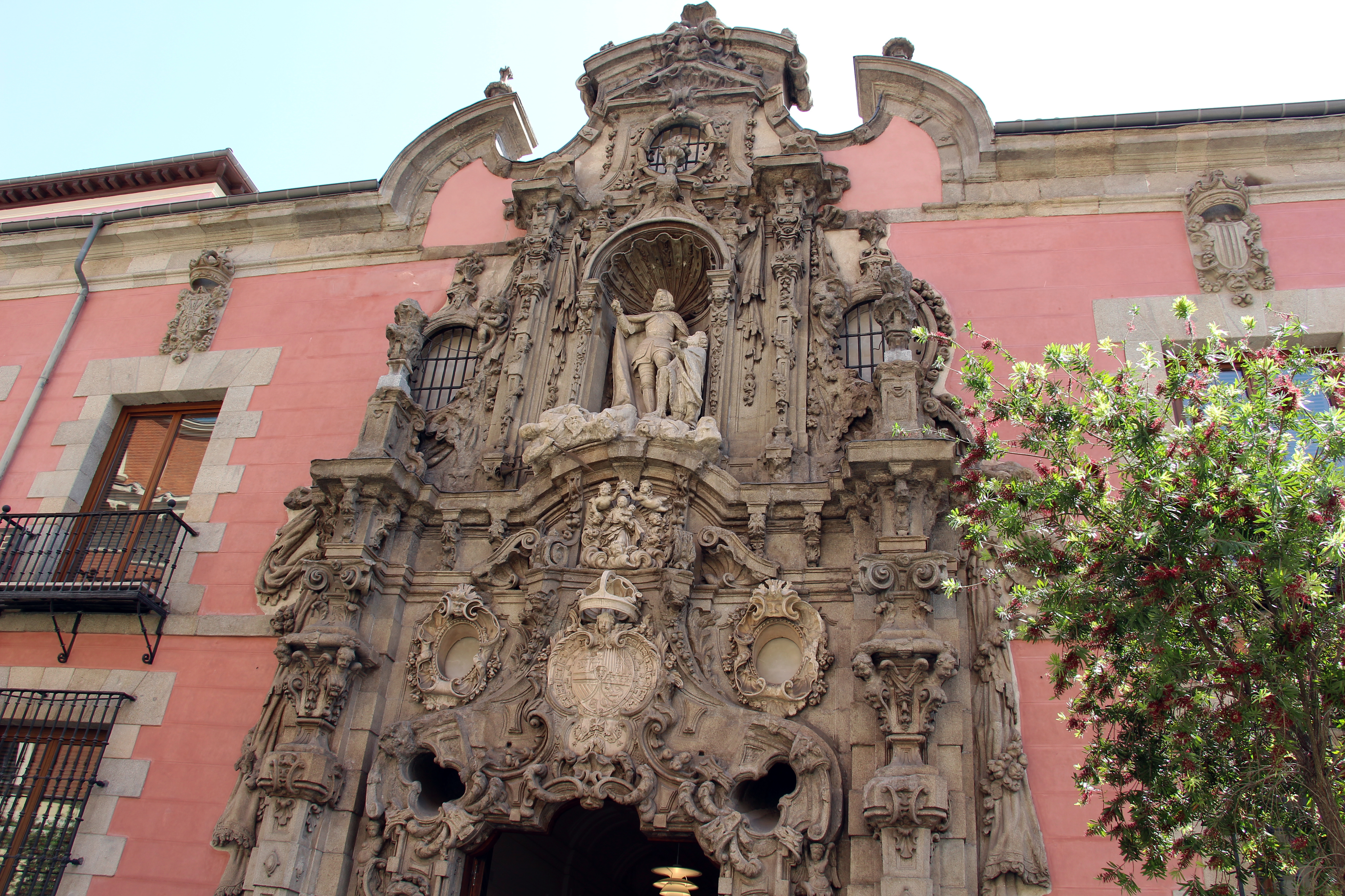 Chueca / Calle de Fuencarral Former Real Hospicio de San Fernando. Arch. Pedro de Ribera 1721-26 The building ceased in its functions of Hospice in 1922, the Municipal Museum was created there in 1922.